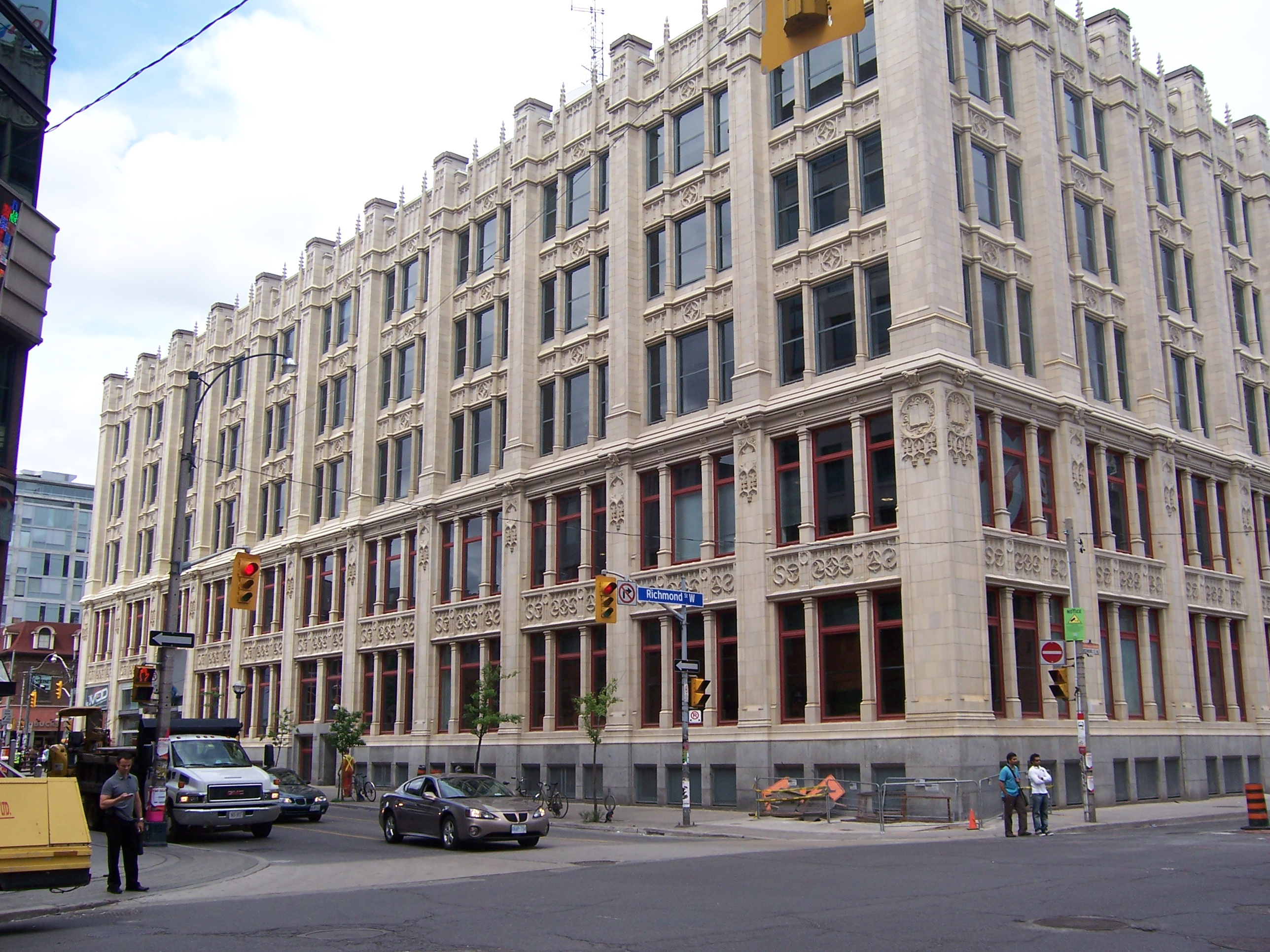 Toronto CHUM Limited building